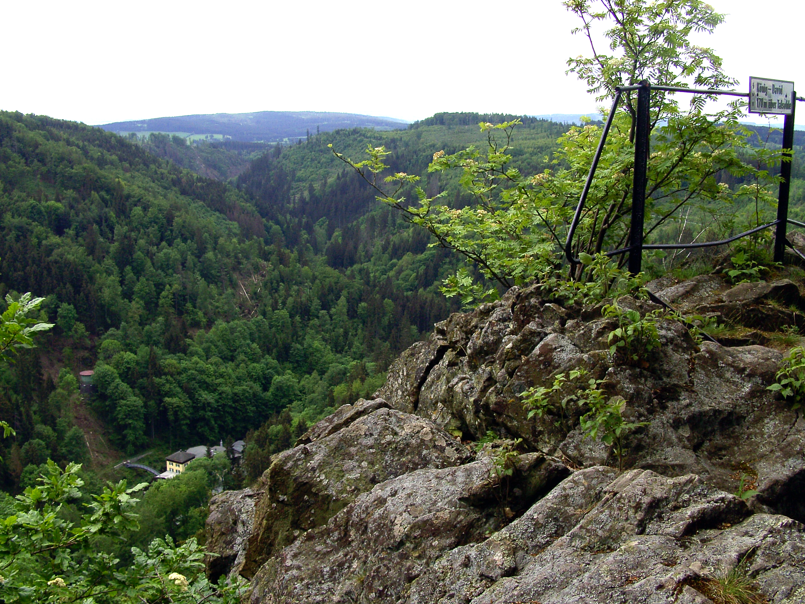 View over the Höllental in Frankenwald from lookout point König David